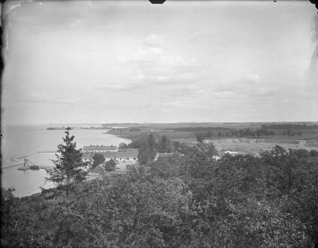 View over Borghamn at the northern end of Omberg mountain area. Lake Vättern to the left. To the right the limestone quarry with medieval roots. Vy över Borghamn vid norra änden av Omberg. Vättern till vänster. Till höger kalkbrottet med rötter i medeltiden. Parish (socken): Väversunda Province (landskap): Östergötland Municipality (kommun): Vadstena County (län): Östergötland Photograph by: Carl Curman Date: 1889 Format: Glass plate negative Persistent URL: Read more about the photo database (in english)